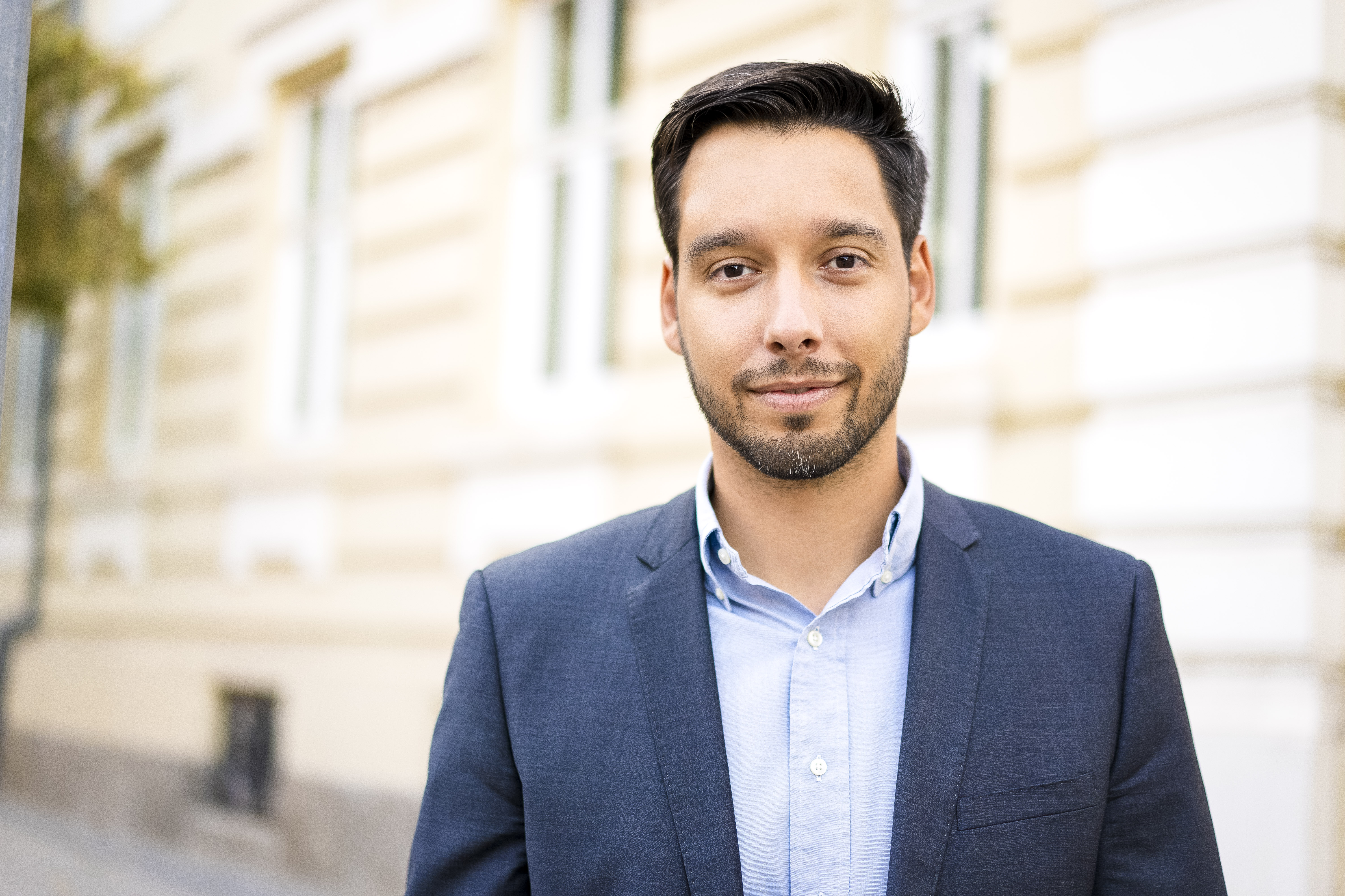 Personal photo of Boris Bonev